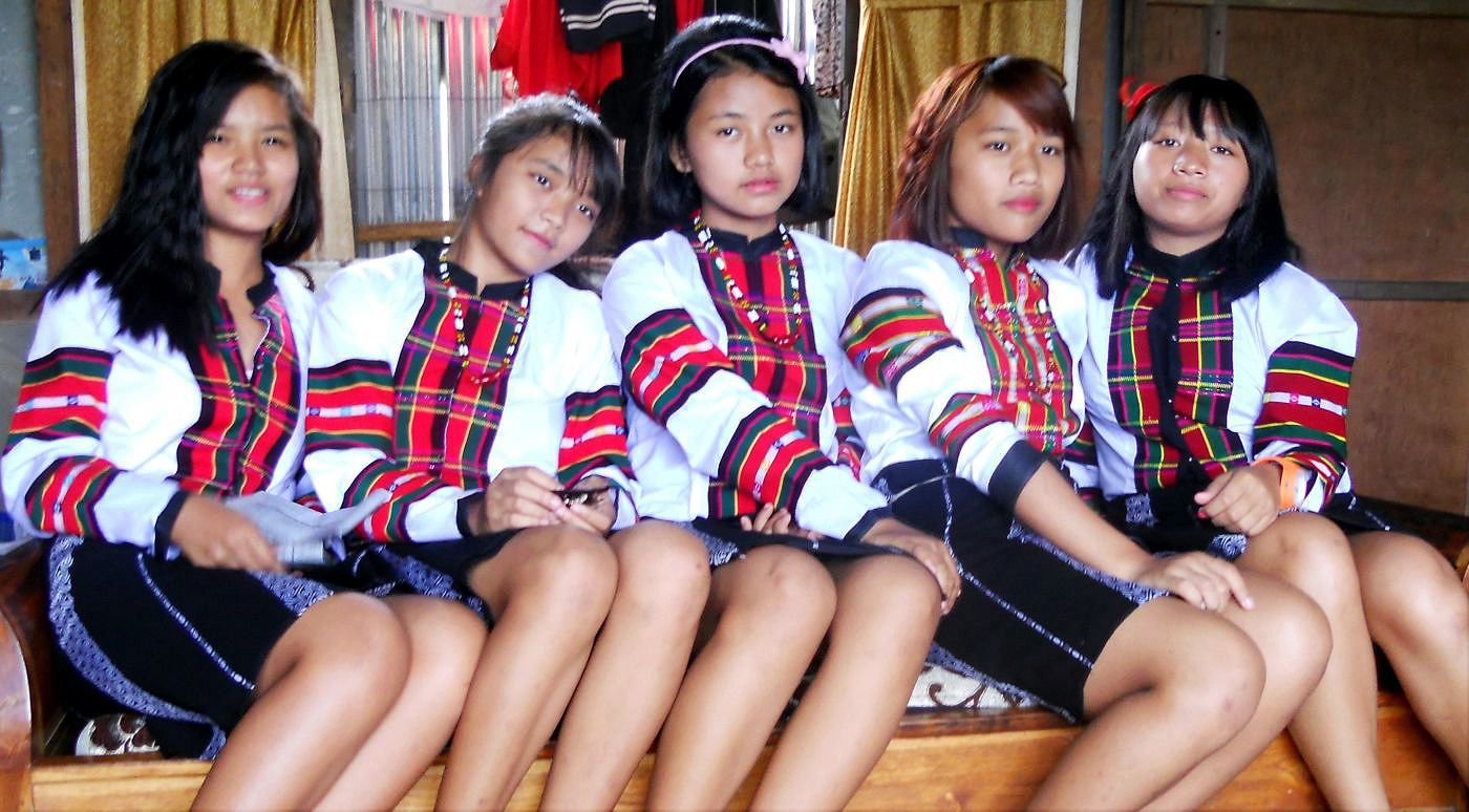 These young Mizo girls wear Mizo traditional dress hmaram and kawrchei.